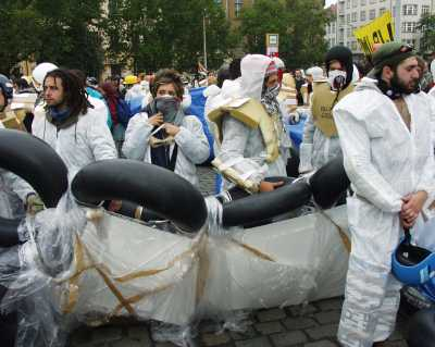 Member of the Italian social movement Tute bianche